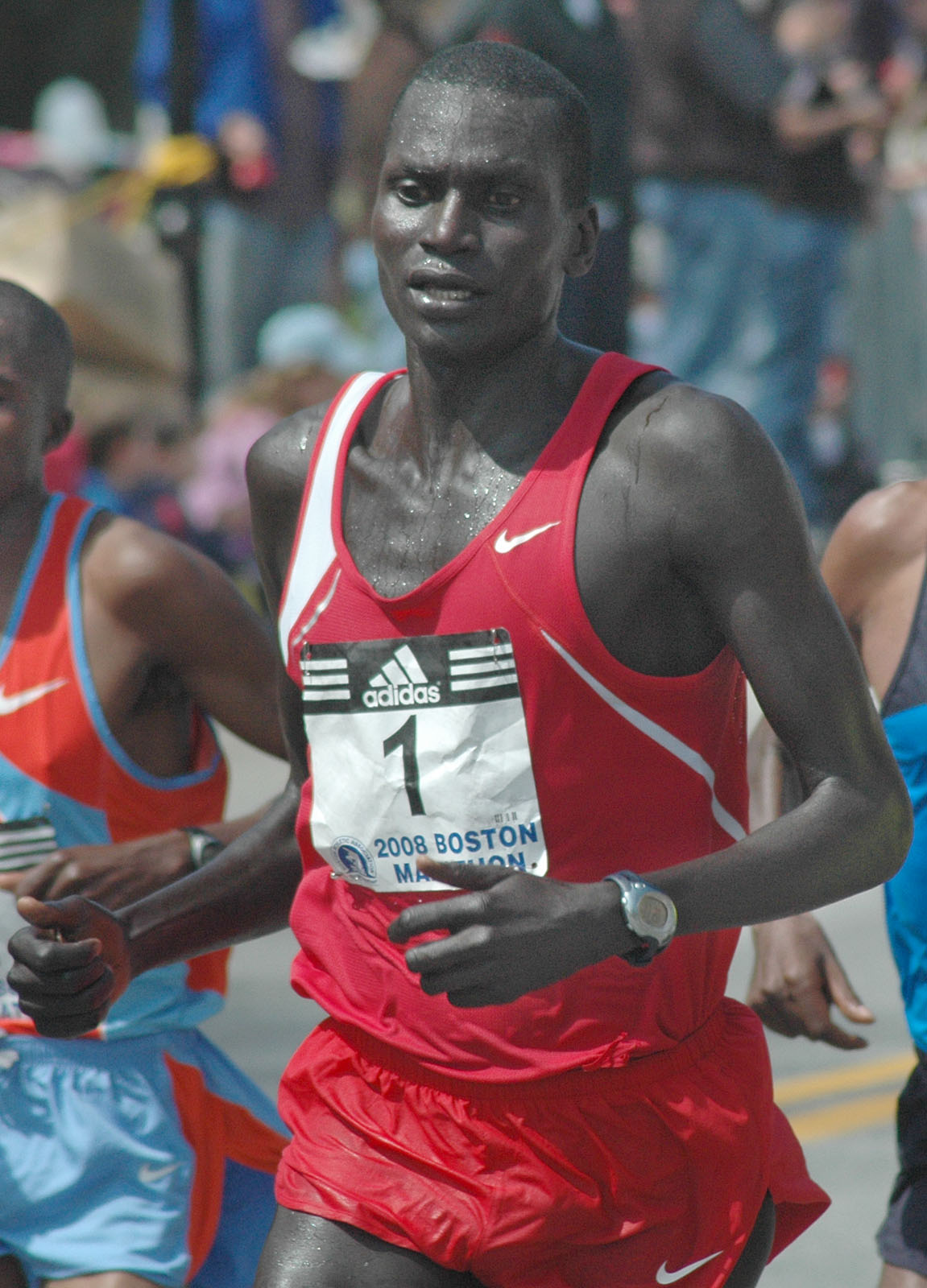 Robert Kipkoech Cheruiyot during 2008 Boston Marathon at Wellesley Square